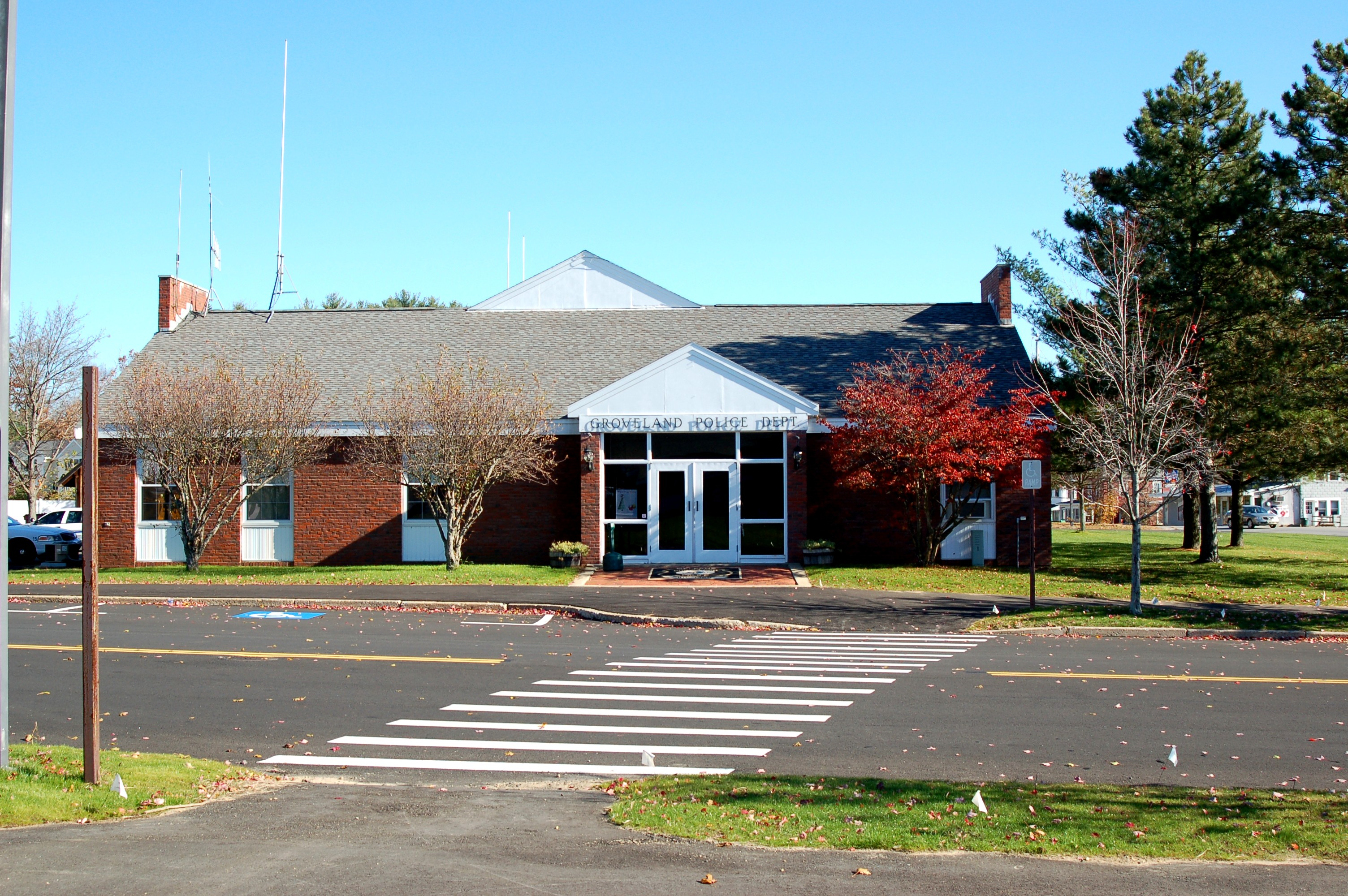 Groveland, Massachusetts Police Department. Photo taken by Author, Richard B. Johnson